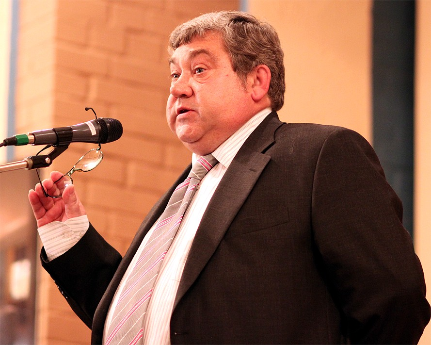 Russian actor Pavel Polunin